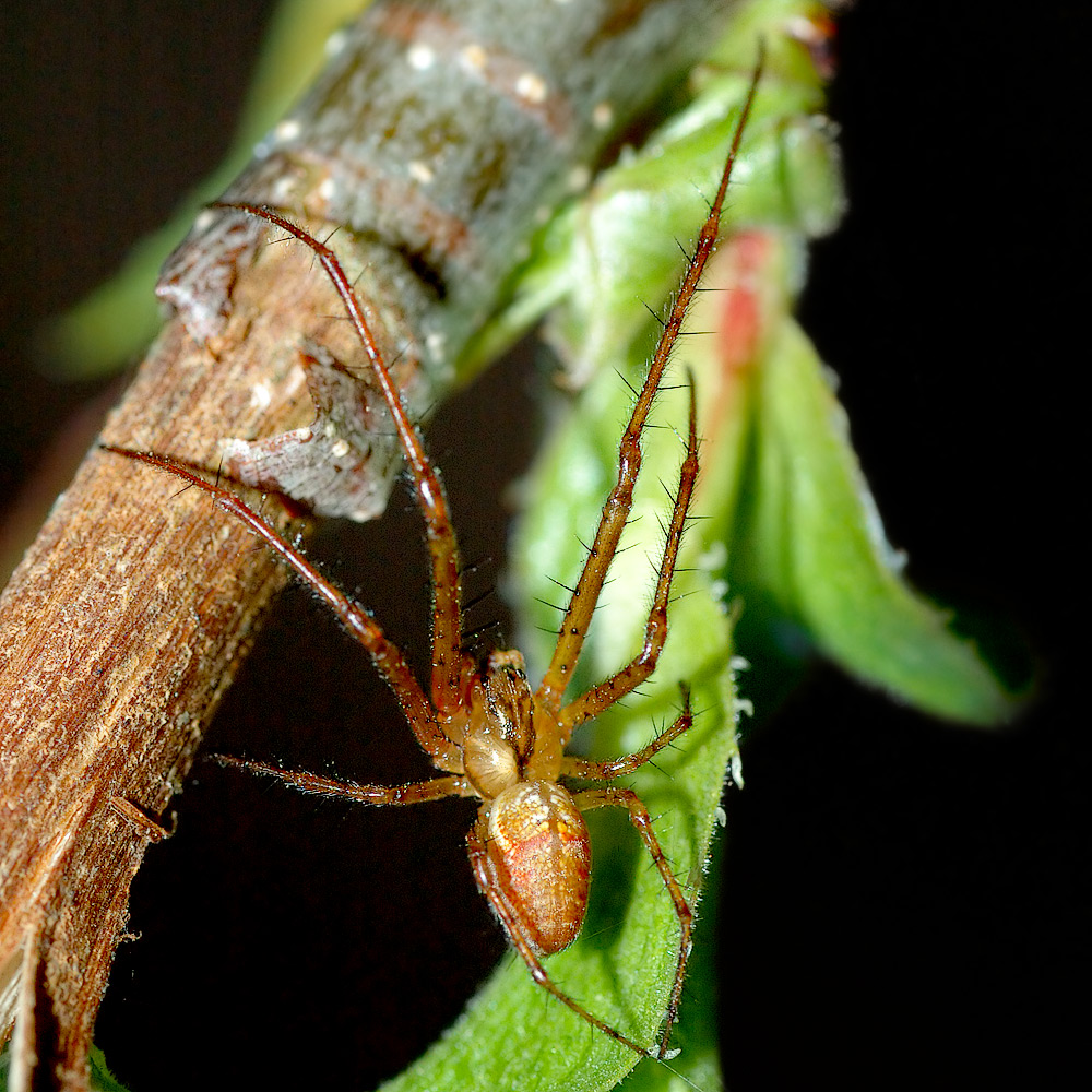 This image shows a Metellina mengei spider. It is about 5 mm small (20 mm with legs).